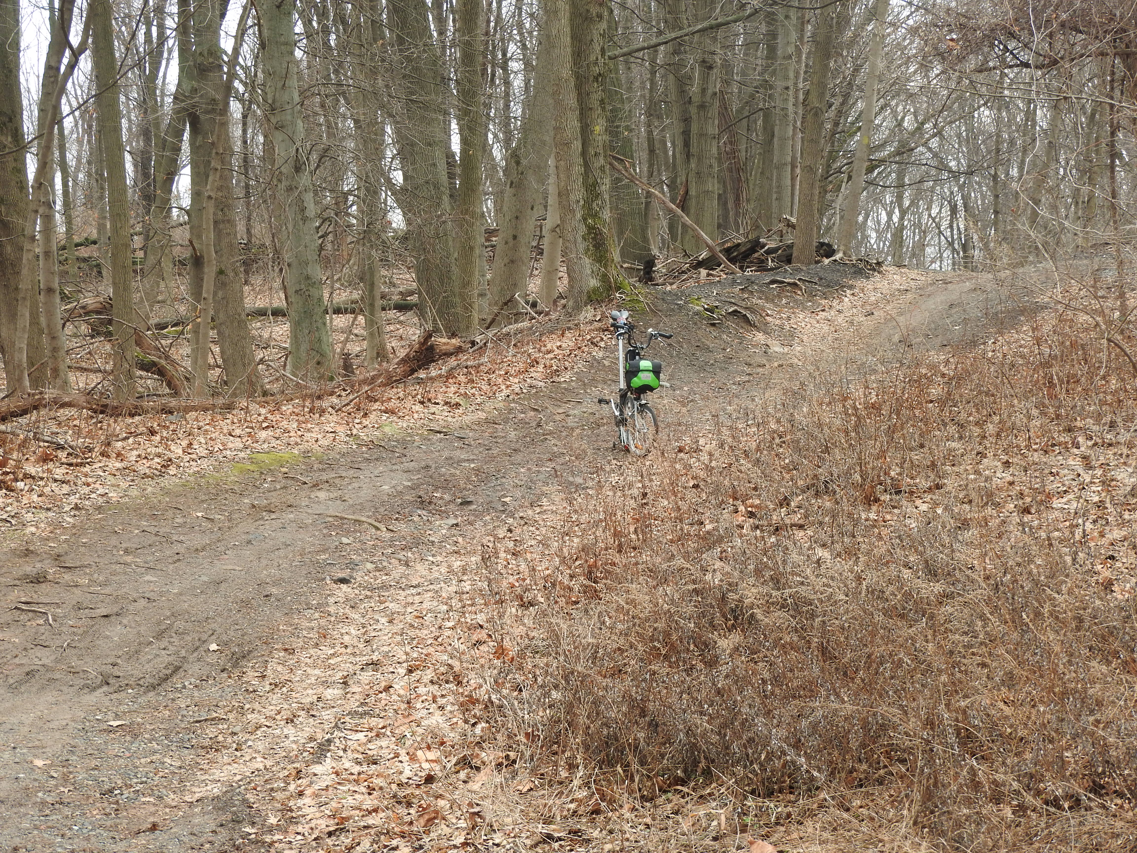 Looking south across Keeney Street at West Essex Trail